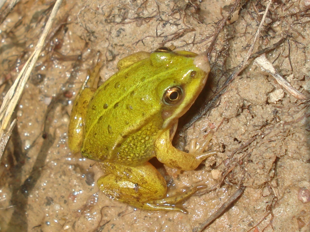 The Pool Frog (Pelophylax lessonae, orPelophylax lessonae)